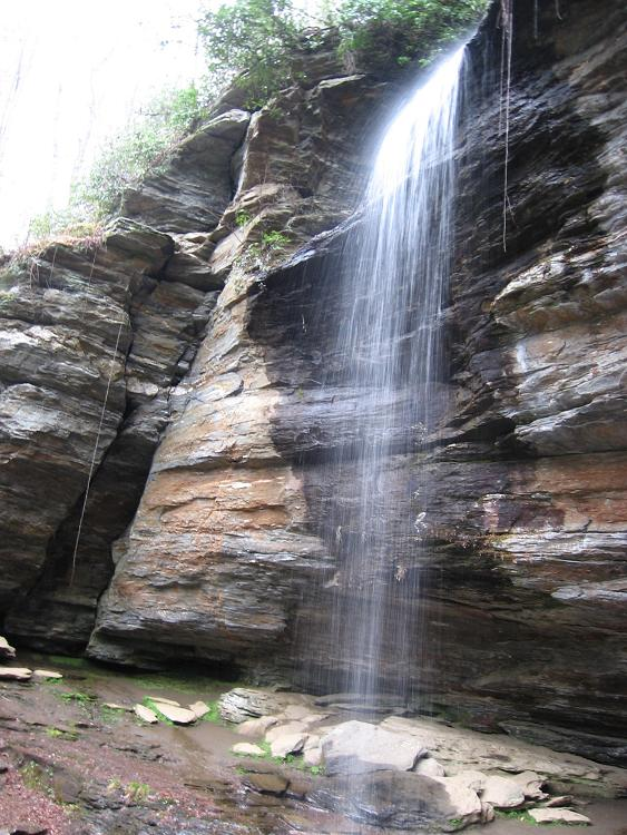 Moore Cove Falls, Pisgah National Forest, Transylvania County, NC, taken by uploader, April 2007.